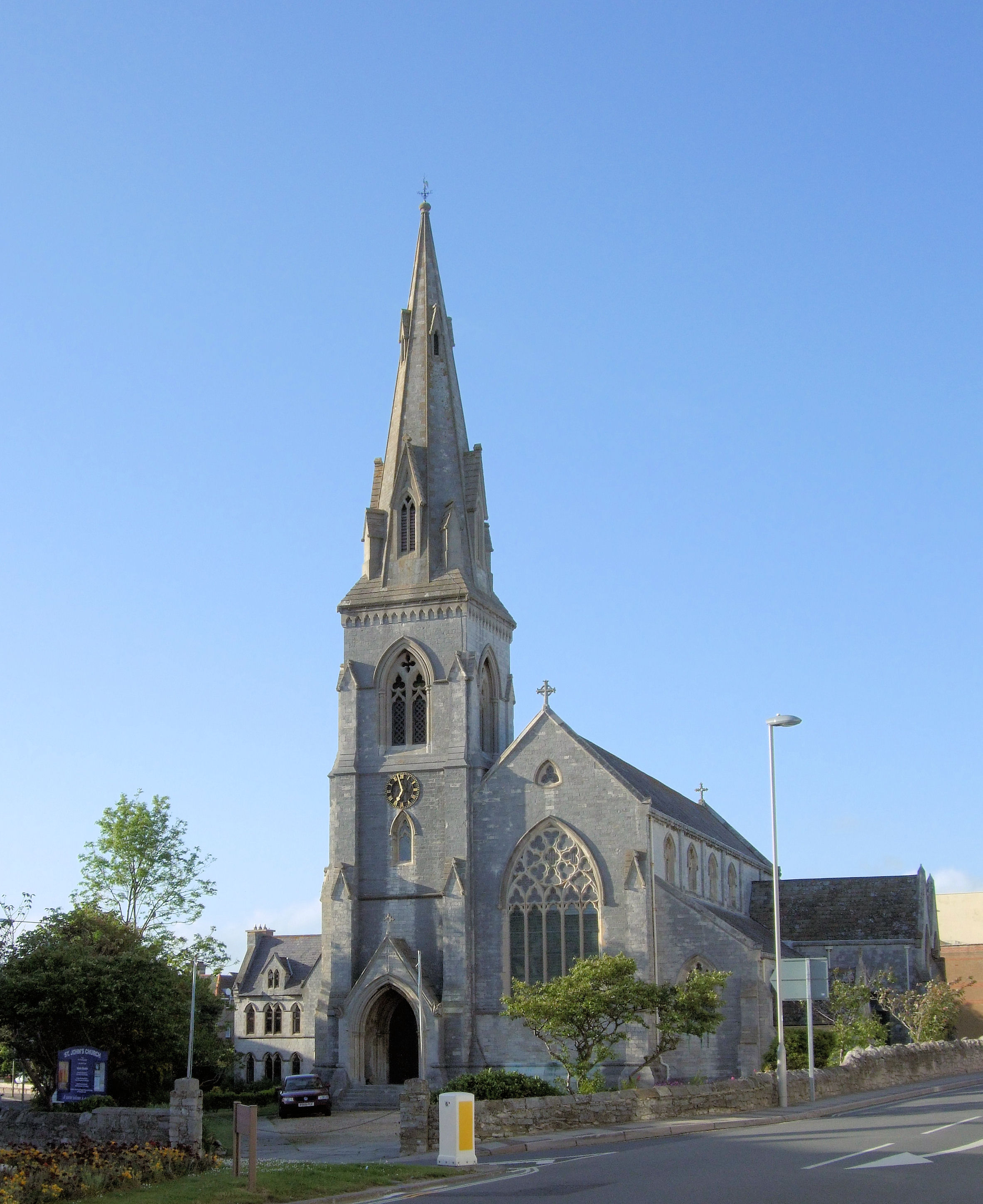 Parish church of St John the Evangelist, Dorchester Road, Weymouth, Dorset, seen from the south